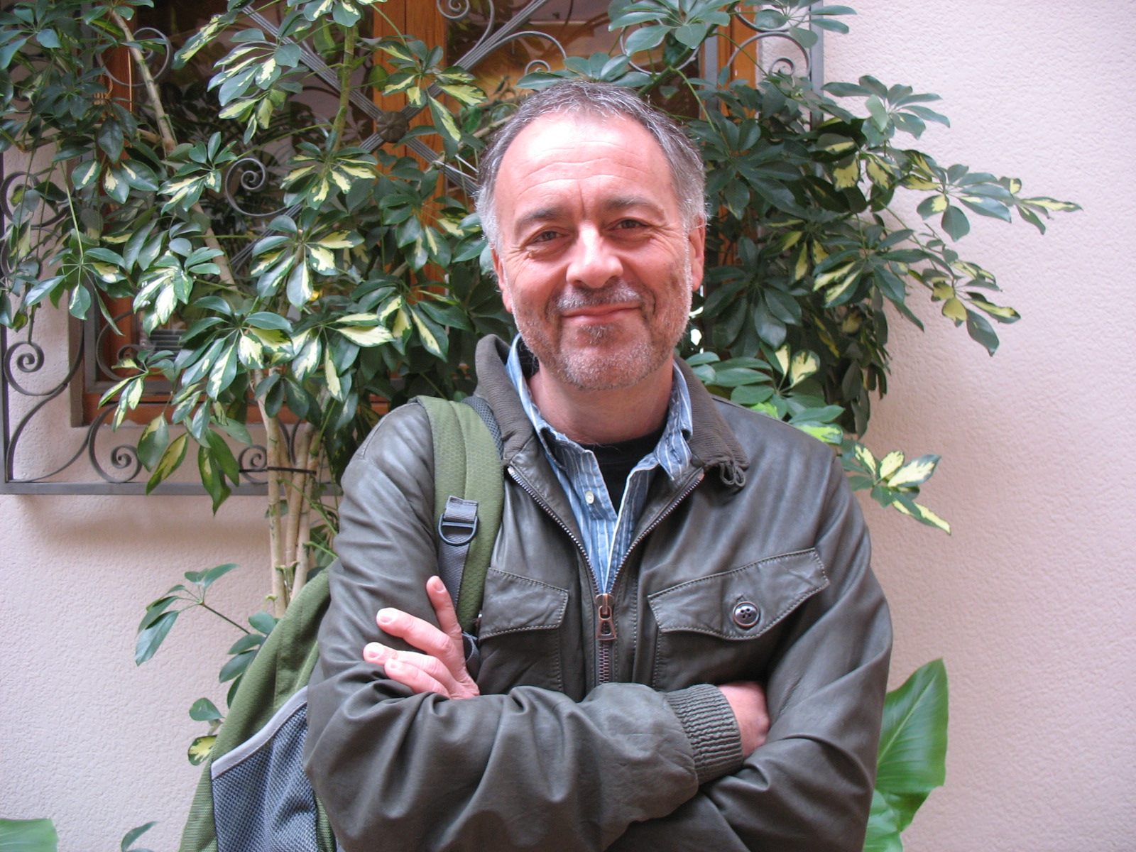 Salvador Moya-Sola (1955 -), Spanish paleoanthropologist.